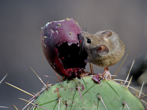 Deer mouse (Peromyscus maniculatus)